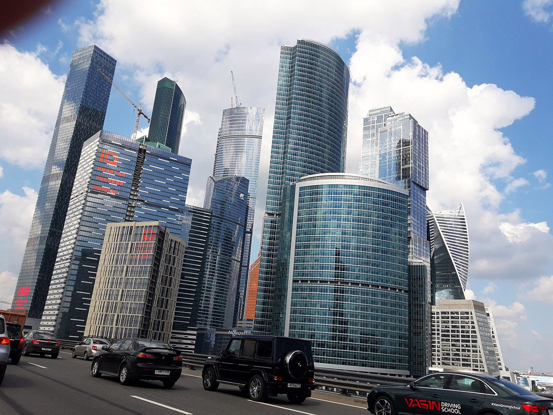 Third Ring Road near Moscow-city